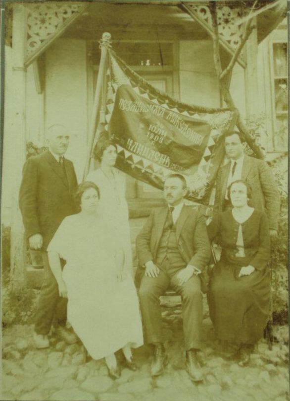 Members of Kyustendil macedonian brotherhood with flag "Indipendent Macedonia"